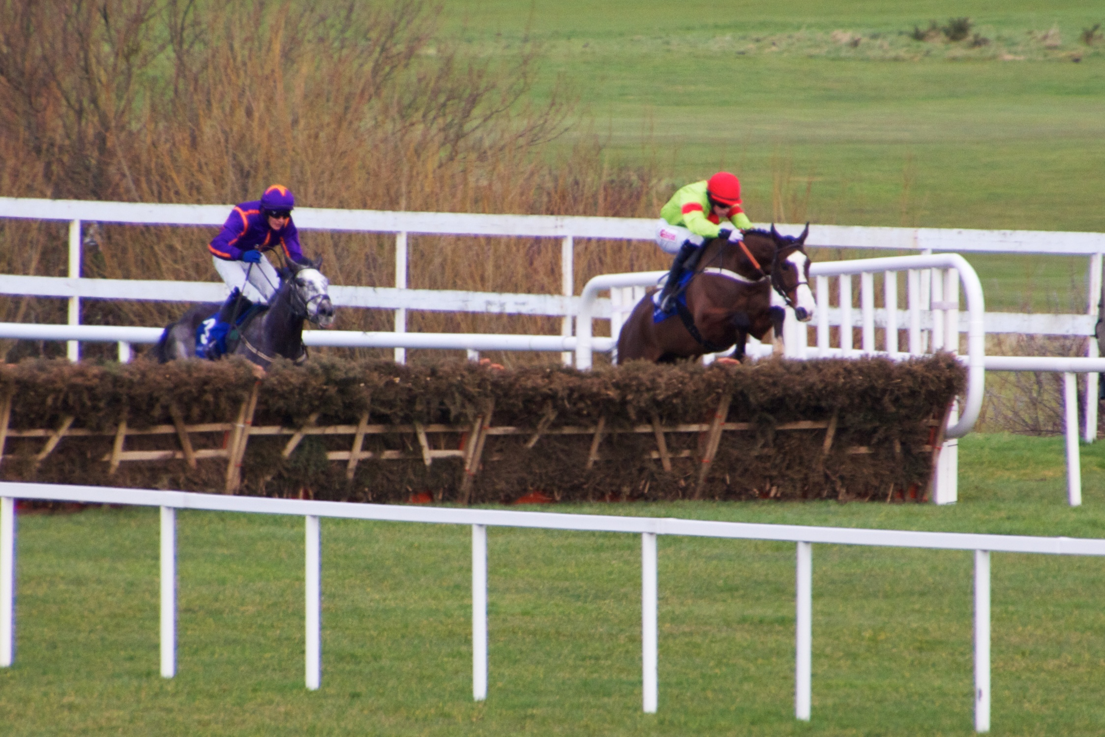 Racehorse Our Conor leads Diakali in the Grade I Spring Juvenile Hurdle at Leopardstown in February 2013.